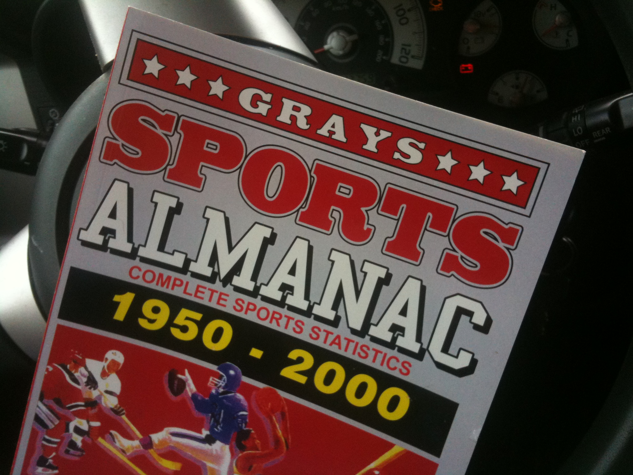 Grays Sports Almanac from Back to the Future, from Mike Mozart's Collection